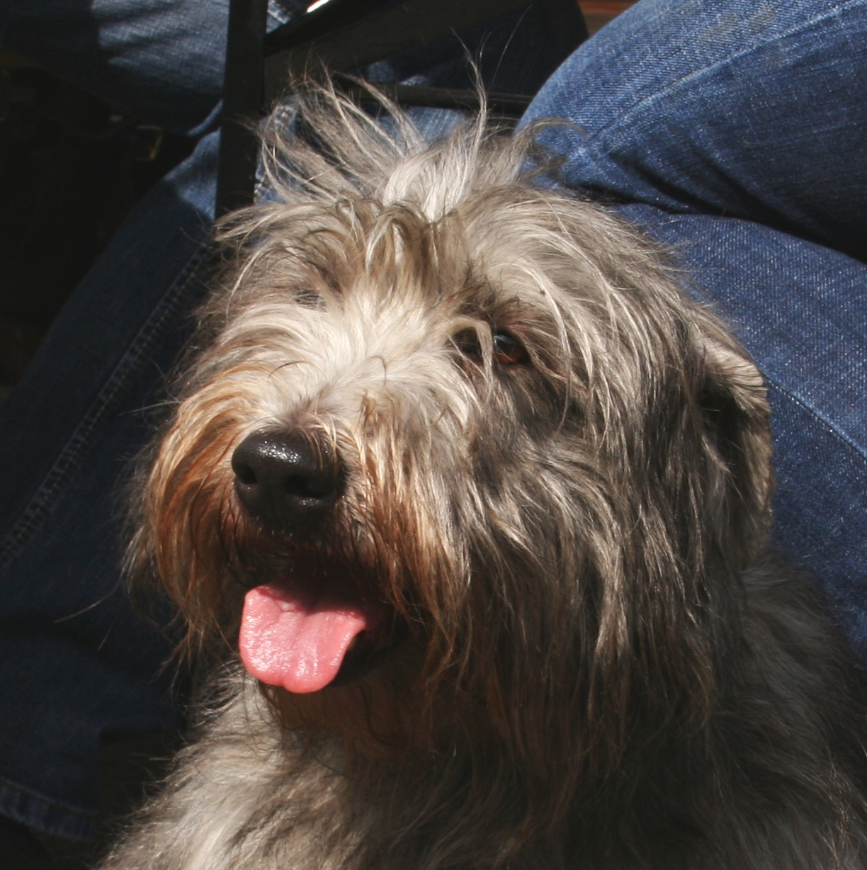 Irish Glen of Imaal Terrier during International show of dogs in Katowice - Spodek, Poland. Breeder - Piotr Kuźnik